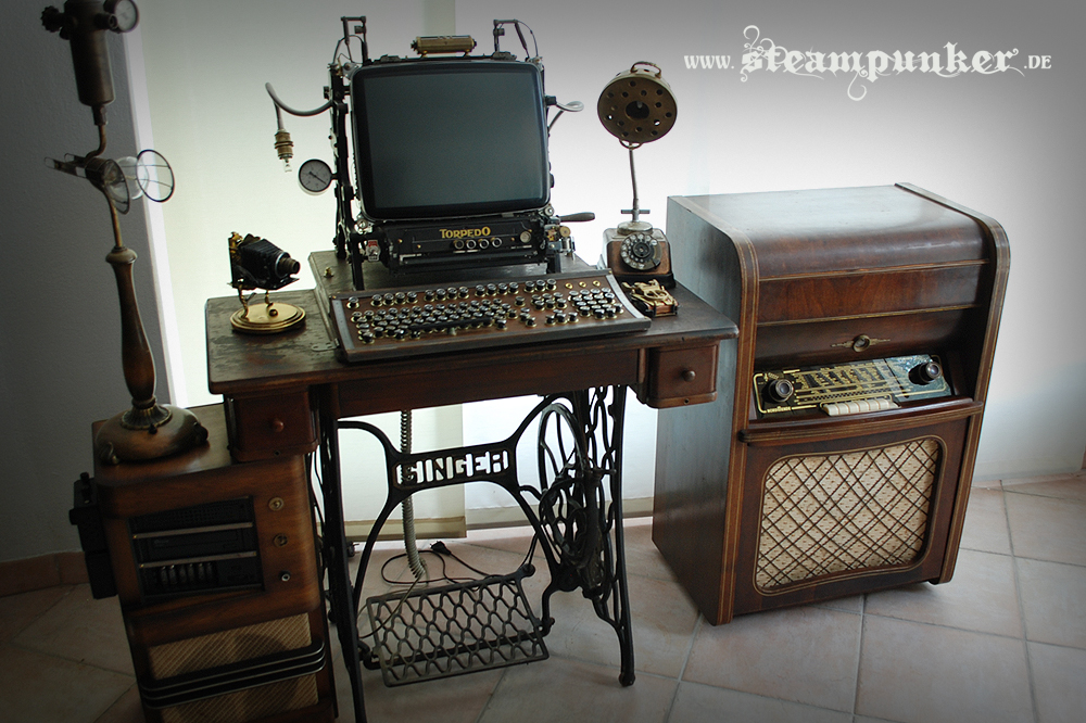 Steampunk workstation consisting of a computer table, a computer, a monitor, a wireless keyboard and a wireless mouse. The table was build from an old Singer sewing machine. The wood was completely reapplied (the patina retained). Three compartments provide storage space for small items. The PC was installed in an old wooden radio cabinet. The whole workstation in original context you find here: Steampunk Artwork